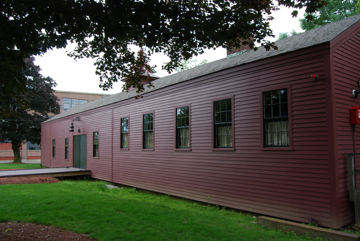 The Little Red Shop, Hopedale, Massachusetts. The birthplace of Draper Loom Corporation.